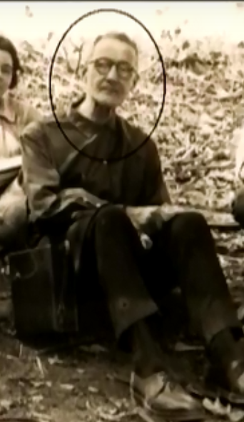 Joaquín Meade in the 1960s.